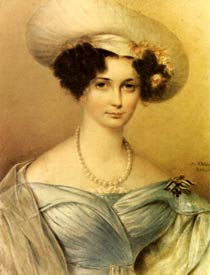 Auguste Fuerstin Liegnitz, born as Auguste Gräfin von Harrach, 1800-73